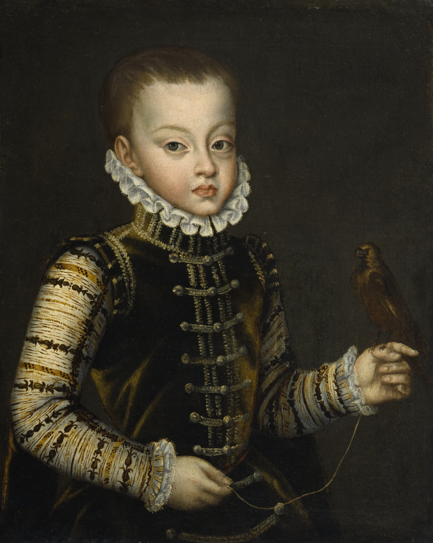 Ferdinand of Spain (1571-1578) was the son of Philip II of Spain and a half-brother of Archduchess Isabella. He still wears a skirt, so he must be about four years old. Coello trained in Brussels and spent much of his career in Philip's service. His portrait of Ferdinand in a green coat with a pet bird was in the king's estate; this is that painting or a version made for a relative such as Isabella.